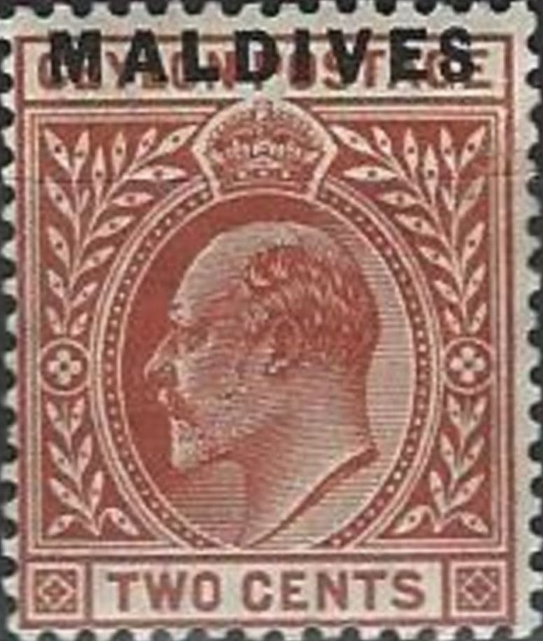 Maldives 1906 02